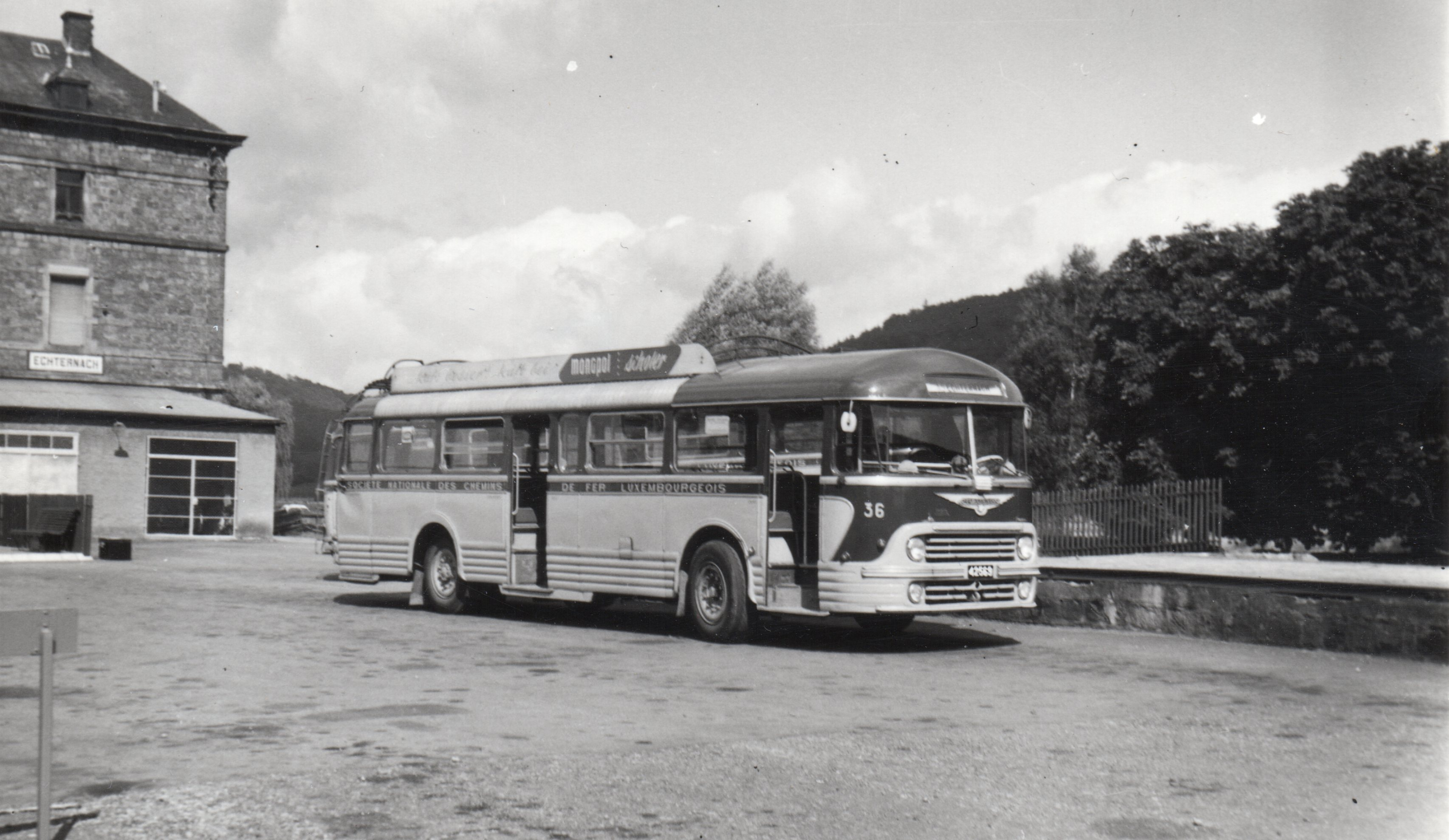 Chausson-Saviem bus 36, Chemins de fer luxembourgeoises, Echternach station, summer of 1973